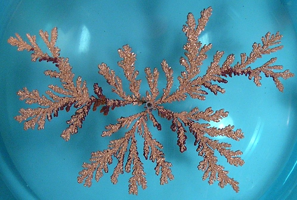 A diffusion-limited aggregation (DLA) cluster. Copper aggregate formed from a copper sulfate solution in an electrode position cell.